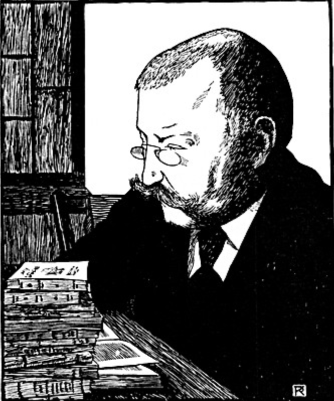 Woodcut of Carl Ludvig Emil Jensen by Kristian Kongstad. Jensen was a Danish literary critic (1865-1927)